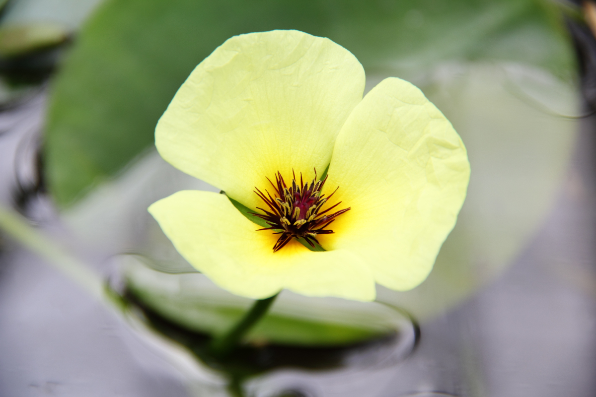 I am a perennial herb with floating leaves. A temperature ranging from 77℉(25℃) to 82.4℉(28℃) makes a favorable condition for my growth, and my survival will be threatened under 41℉(5℃). Seeding propagation is seldom used in my reproduction but generally division propagation